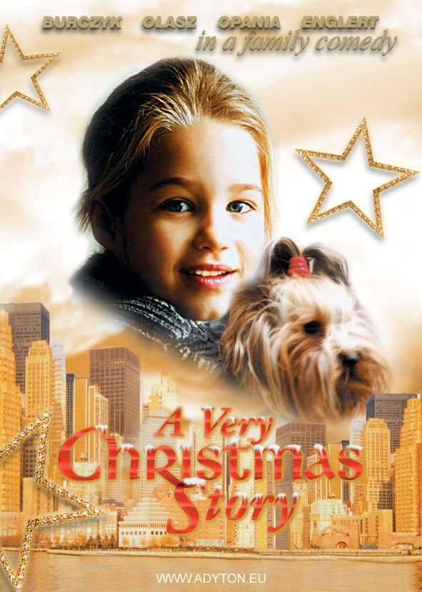 "A Very Christmas Story" (2000), family comedy, a Dariusz Zawiślak film.